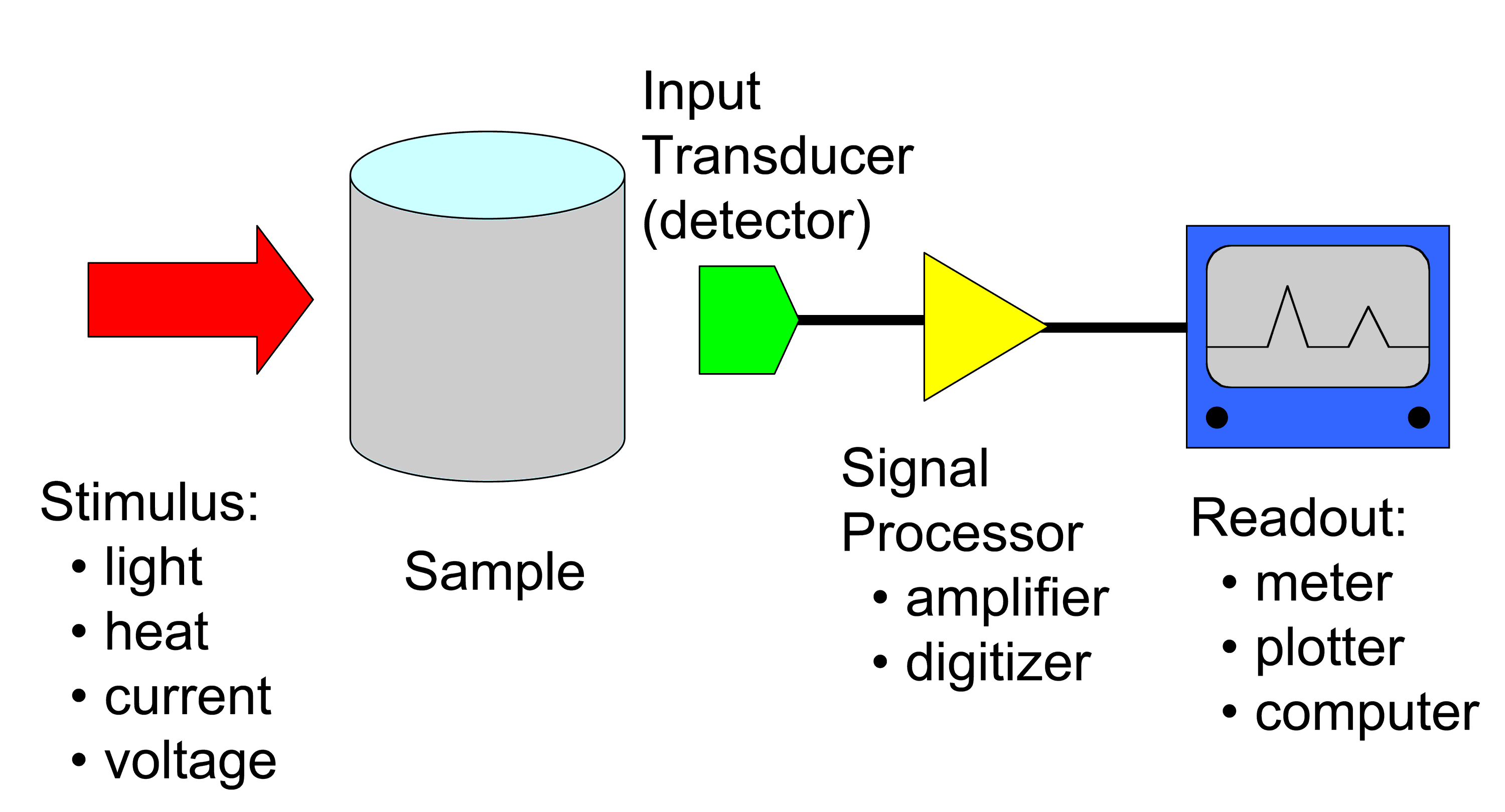 Schematic of an idealized analytical instrument.